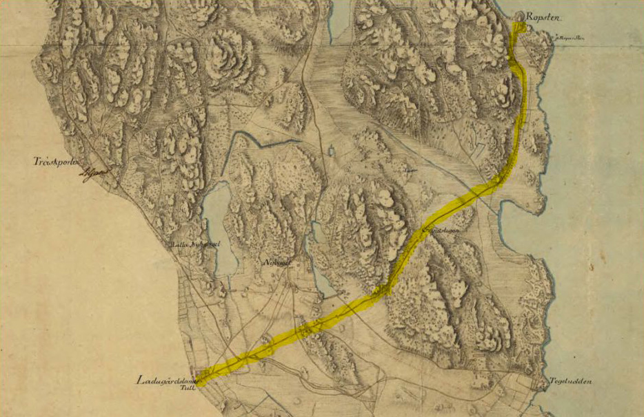 Part of a historical map showing part of Norra Djurgården, Stockholm, in the 18th century. The map was created by O. C Von Fieandt. The yellow markning showing the path of Värtavägen from Ladugårdslandstullen to Ropsten.